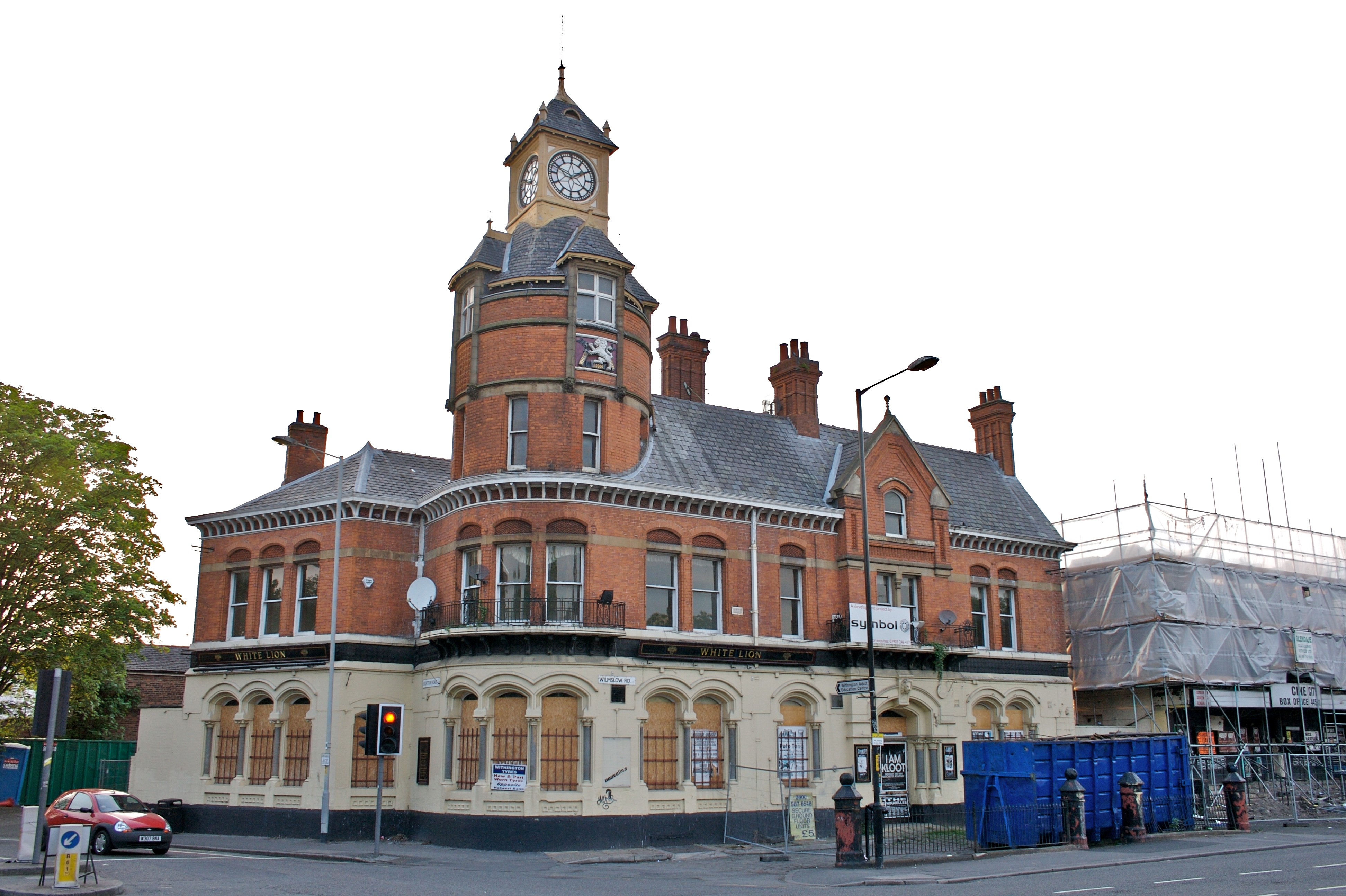 The White Lion in Withington, Manchester, England.